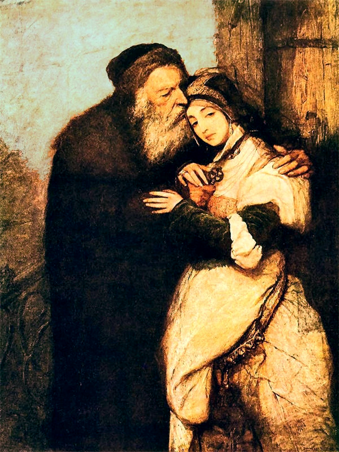 One of the famous paintings of Maurice Gotlieb on the plot of the Venetian merchant.